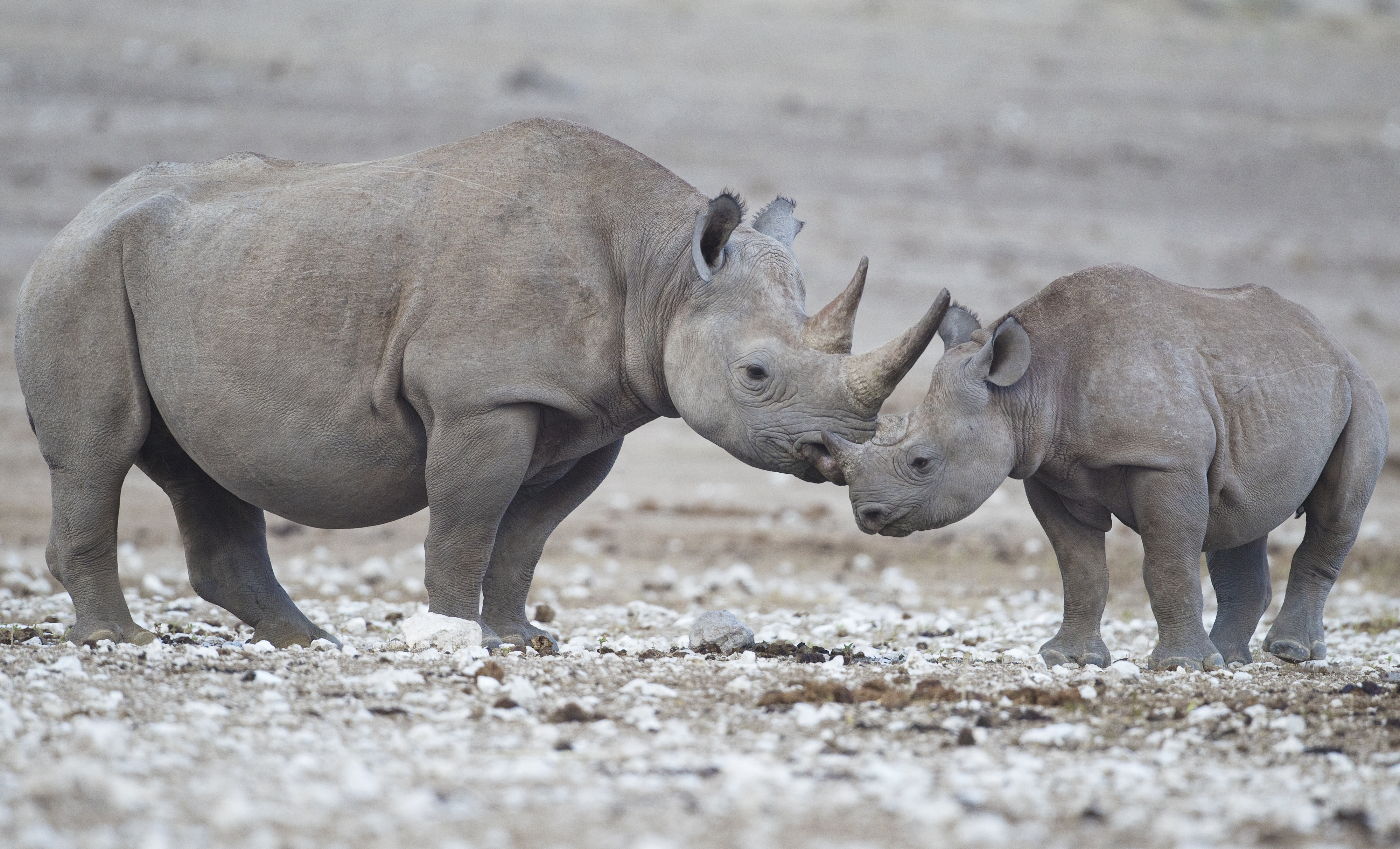 Black rhinoceros mother and calf in the Etosha National Park. The mother-calf pair made a rare appearance just after sunset at a waterhole.